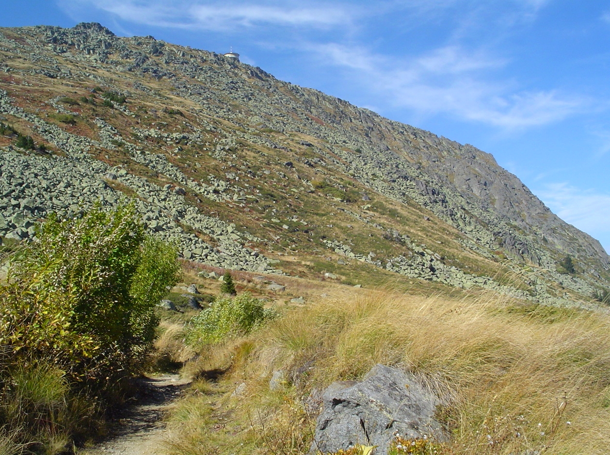 A track in the foothills of Golyam Rezen Peak crossing the upper Bistrishko Branishte Biosphere Reserve. Vitosha Mountain, Bulgaria. Photograph by Kiril Kapustin published in under Creative Commons license 2.5.